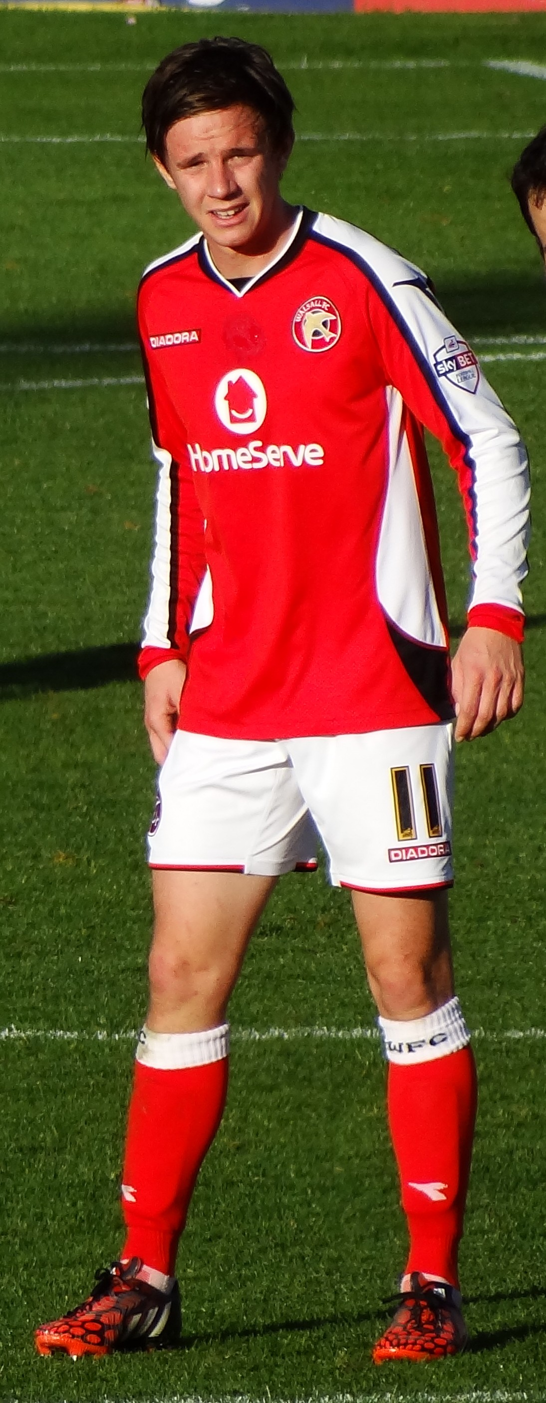 James Baxendale playing for Walsall FC in a League One match against Chesterfield on 25 October 2014.